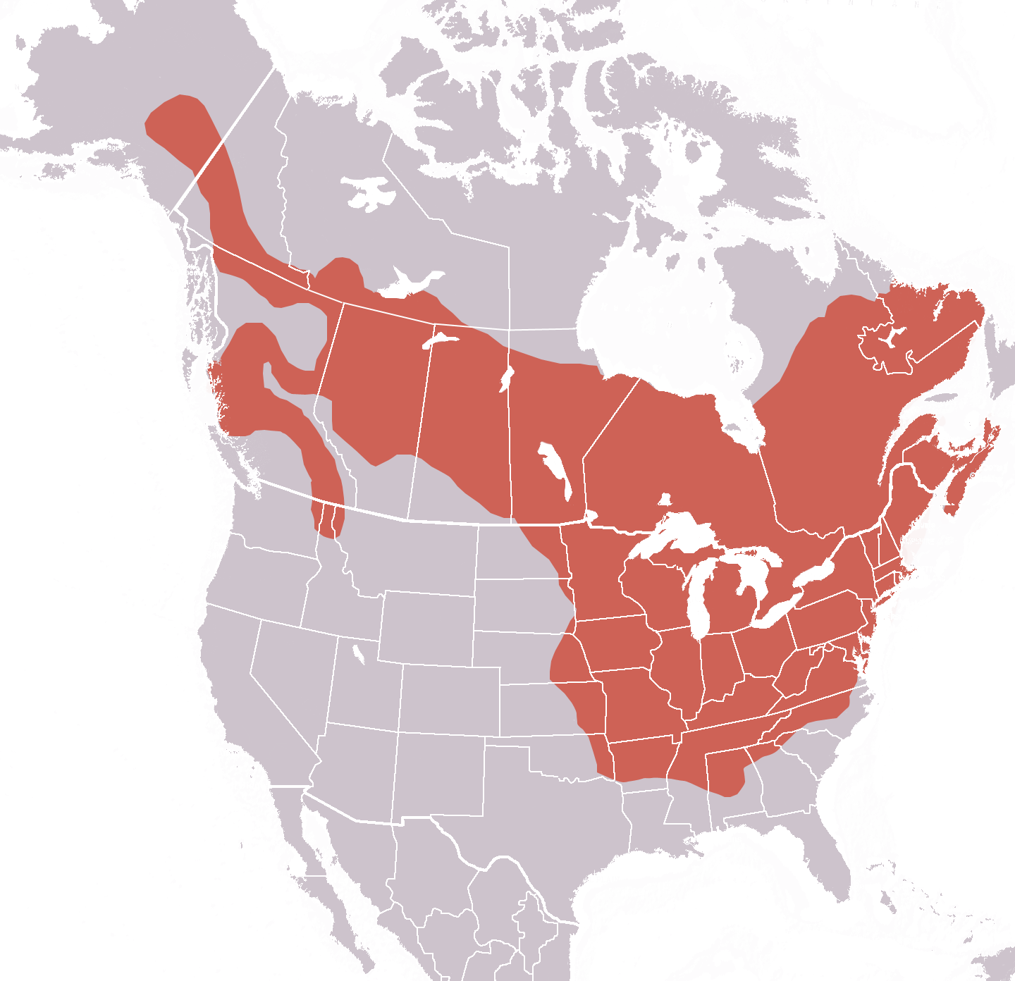 Marmota monax range map (based on Marmota monax distribution information at NatureServe Explorer)